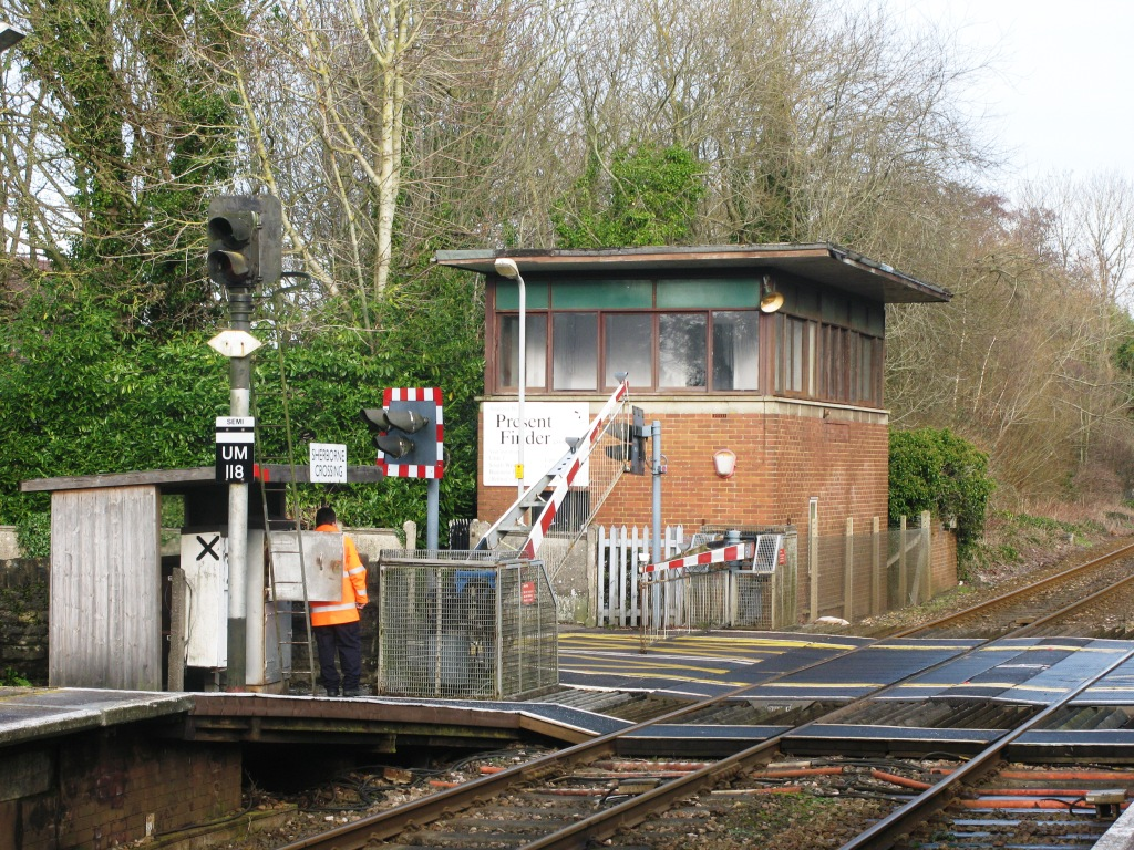 The level crossing barriers being lowered at Sherborne level crossing Dorset, England. The signal box is no longer used, instead the controls for the barriers are in the shelter on the left.